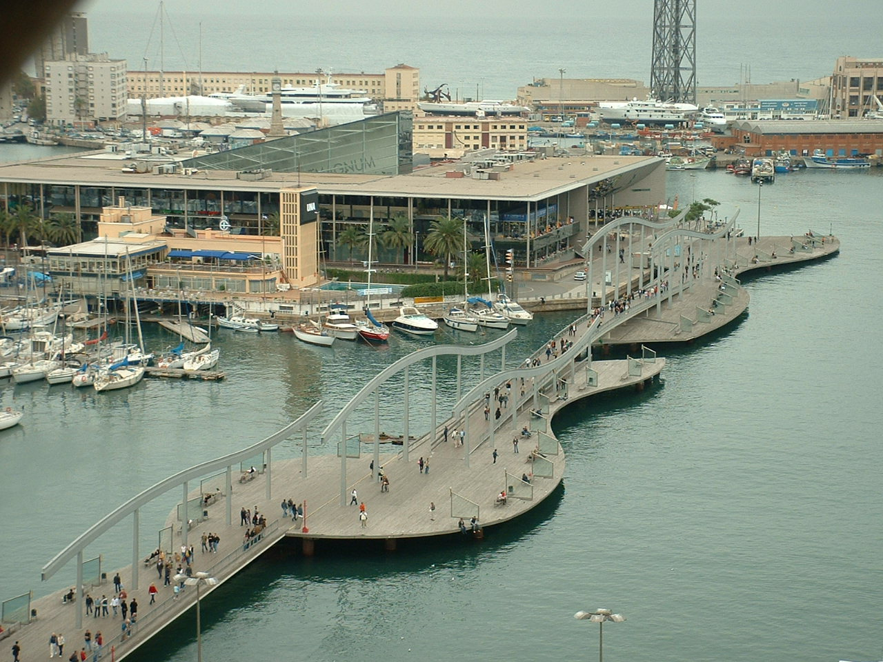 Taken 27 Oct 2004 14:21 from the Columbus Monument at Pl. Drassanes (Costal end of the Ramblas)